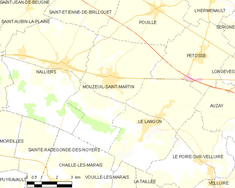 Map of French municipality Mouzeuil-Saint-Martin